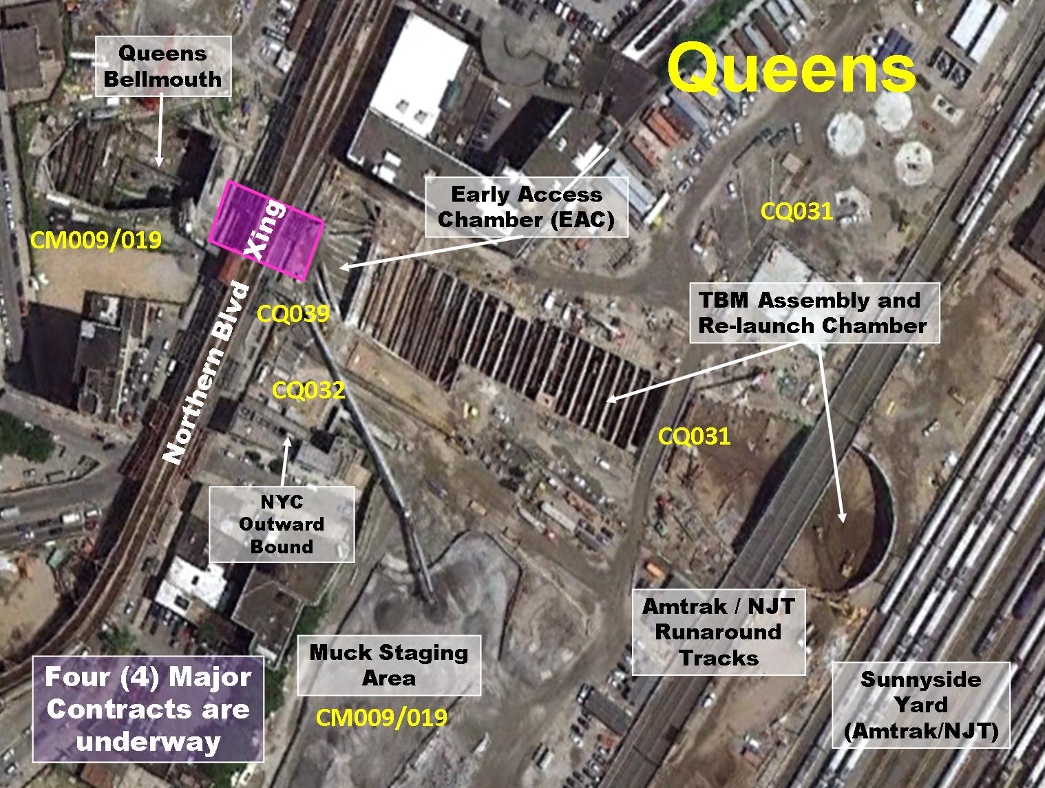 East Side Access project Queens area work site, highlighting the Northern Boulevard tunneling segment. Image: Metropolitan Transportation Authority.